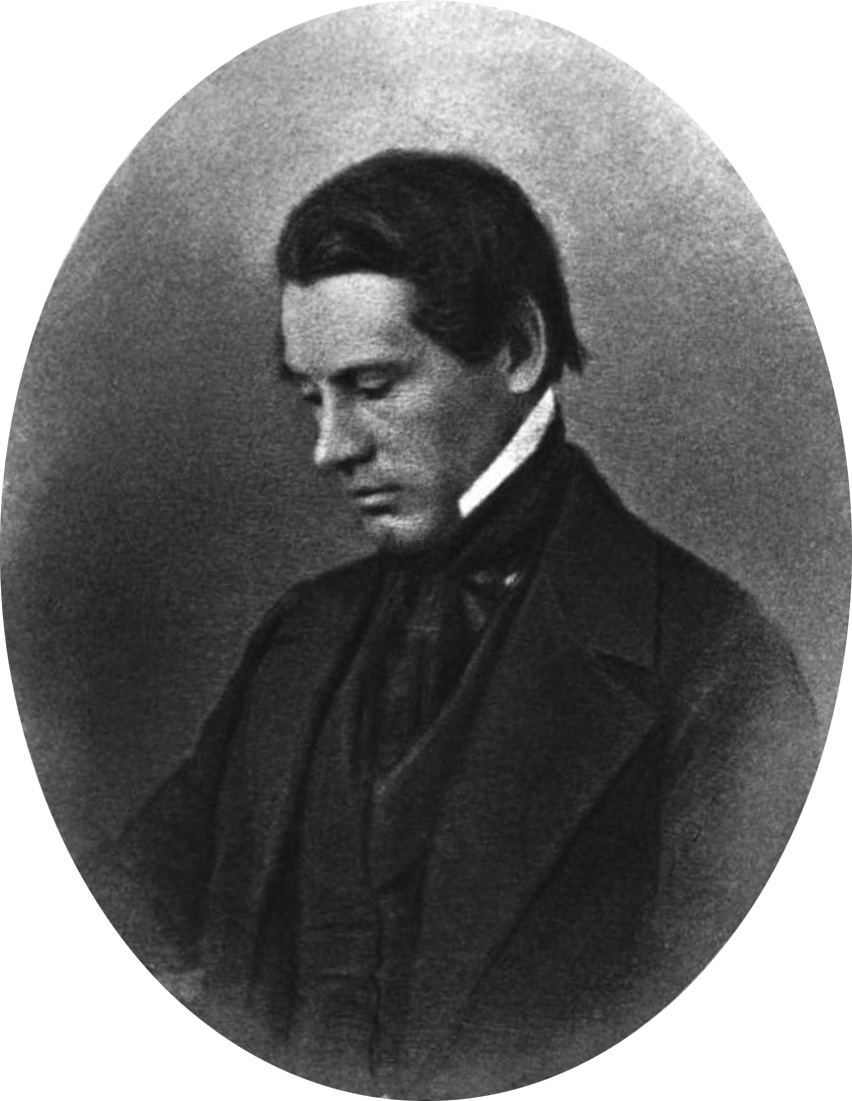 Daguerrotype of Asa Gray, taken around 1841